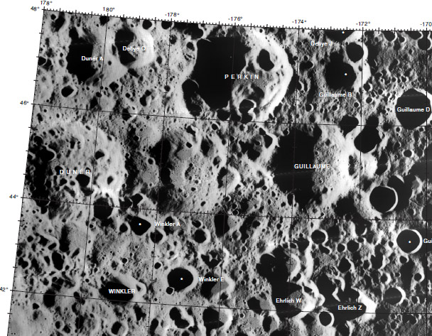 Except from the USGS Digital Atlas of the Moon.